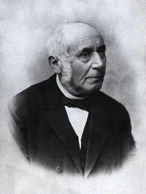 Ludvig Israel Brandes (1821-1894), Danish physician